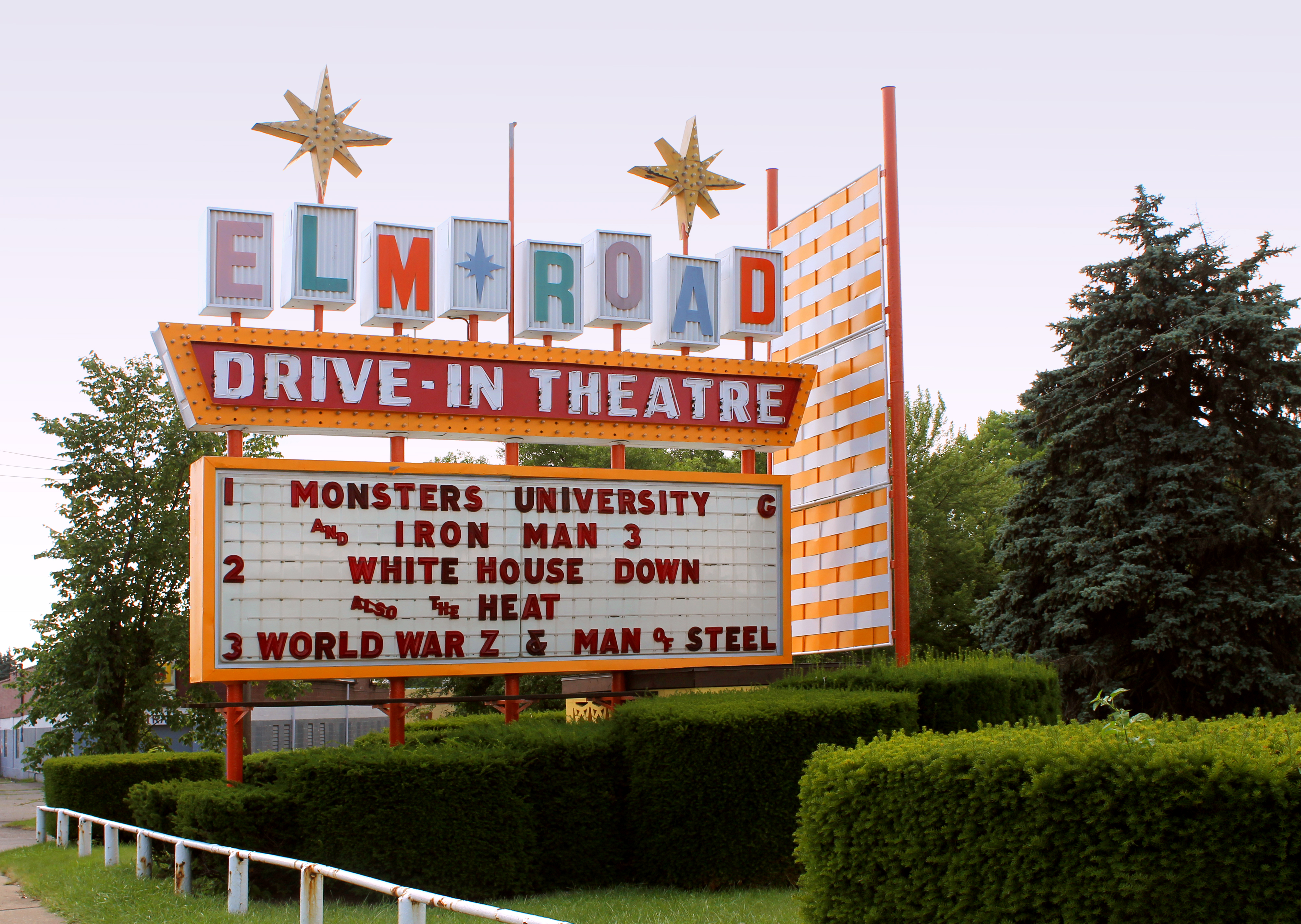 ELM ROAD TRIPLE DRIVE-IN THEATRE 1895 Elm Rd. NE Warren, Ohio 44483 The Elm Road Drive-In Theatre was founded in 1950 by Stephen Hreno and wife, Mary and is now one of less than 400 remaining drive-in theaters in the U.S. On August 3, 1950, the drive-in opened its doors as a then typical single screen, outdoor movie theater. When the business passed to Steve's son Robert in the '70's, he first added a second screen in 1979. Then came FM stereo through the car radio and in 2005, a third big screen was added. You can find